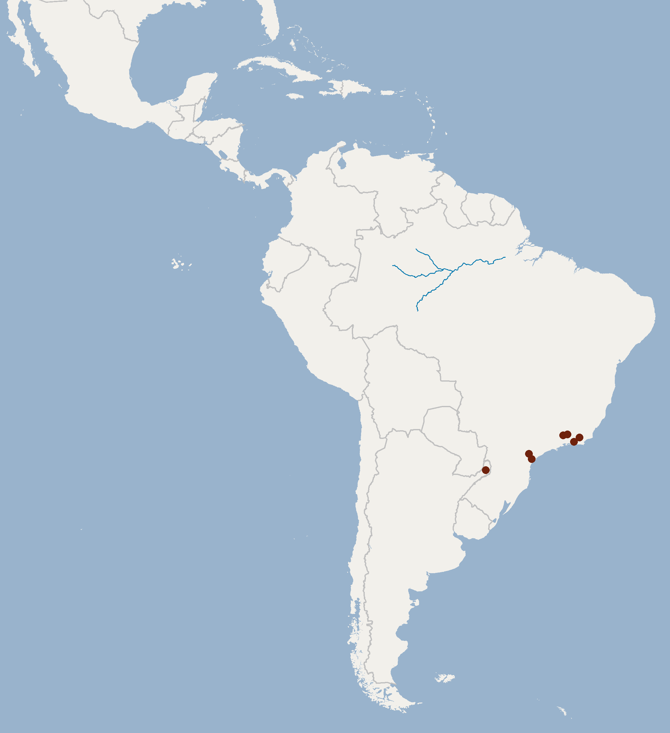 According to Museum specimens